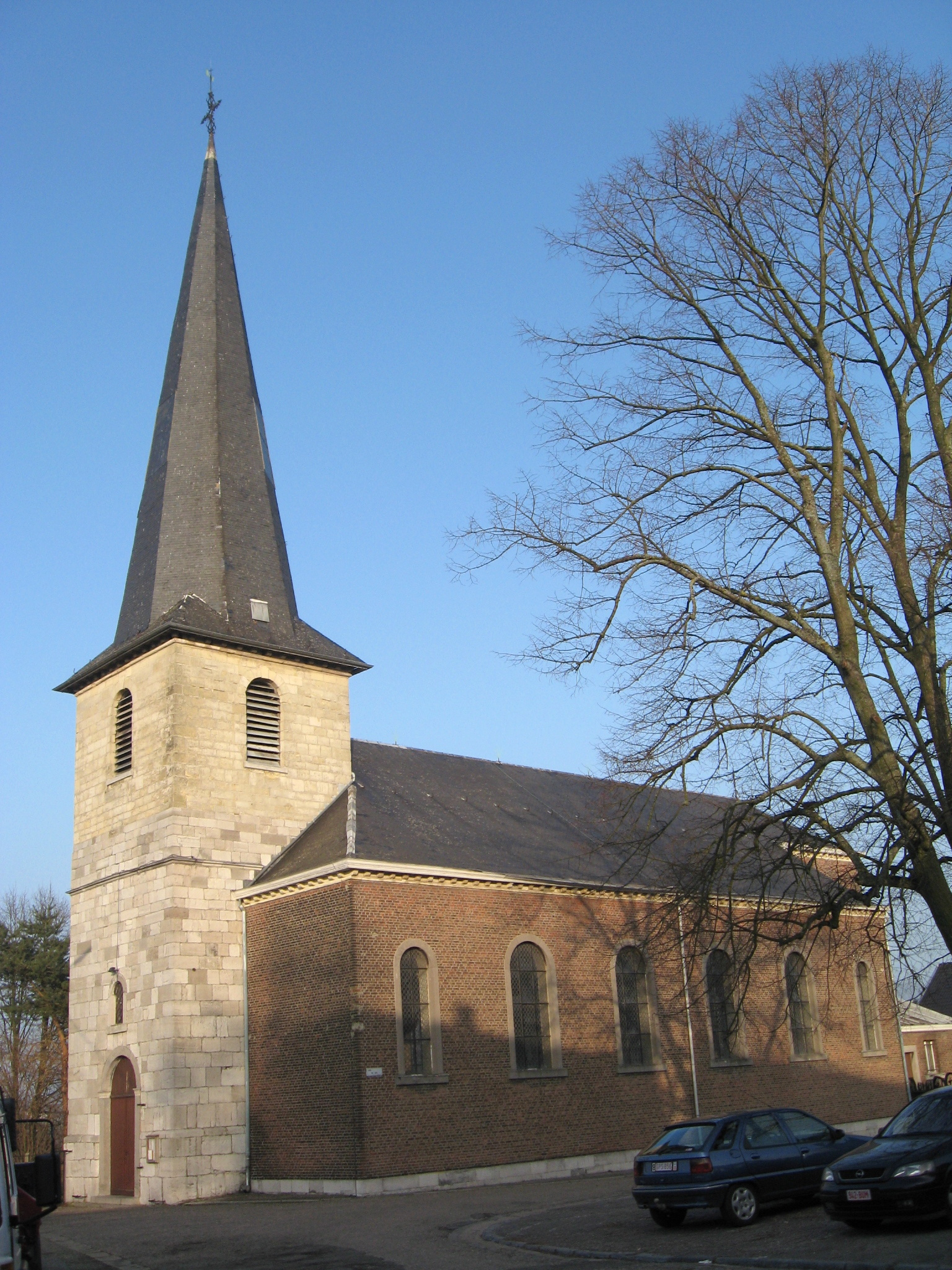 Church of Saint Denis in Fléron, Liège, Belgium